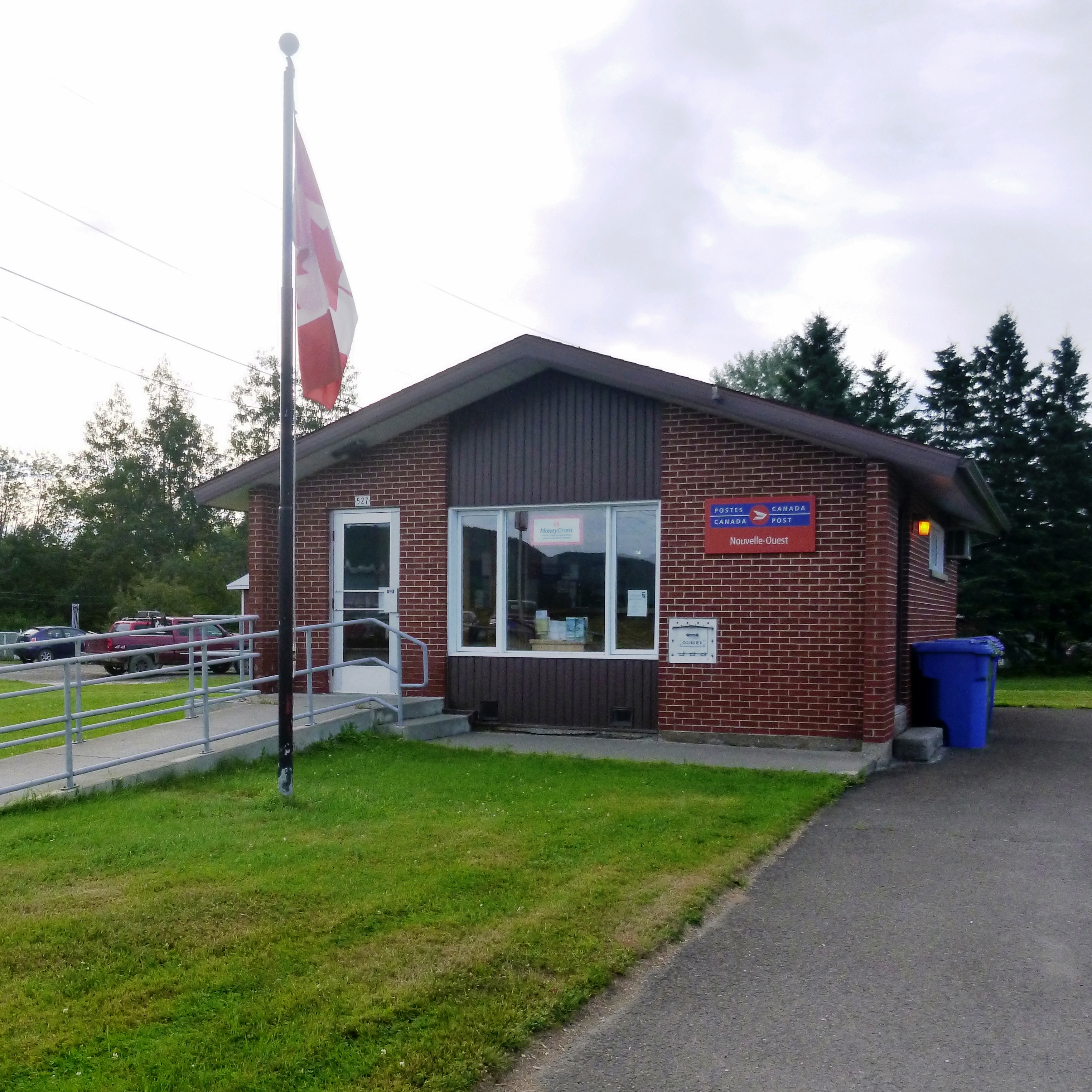 Nouvelle Ouest, Quebec Post Office building